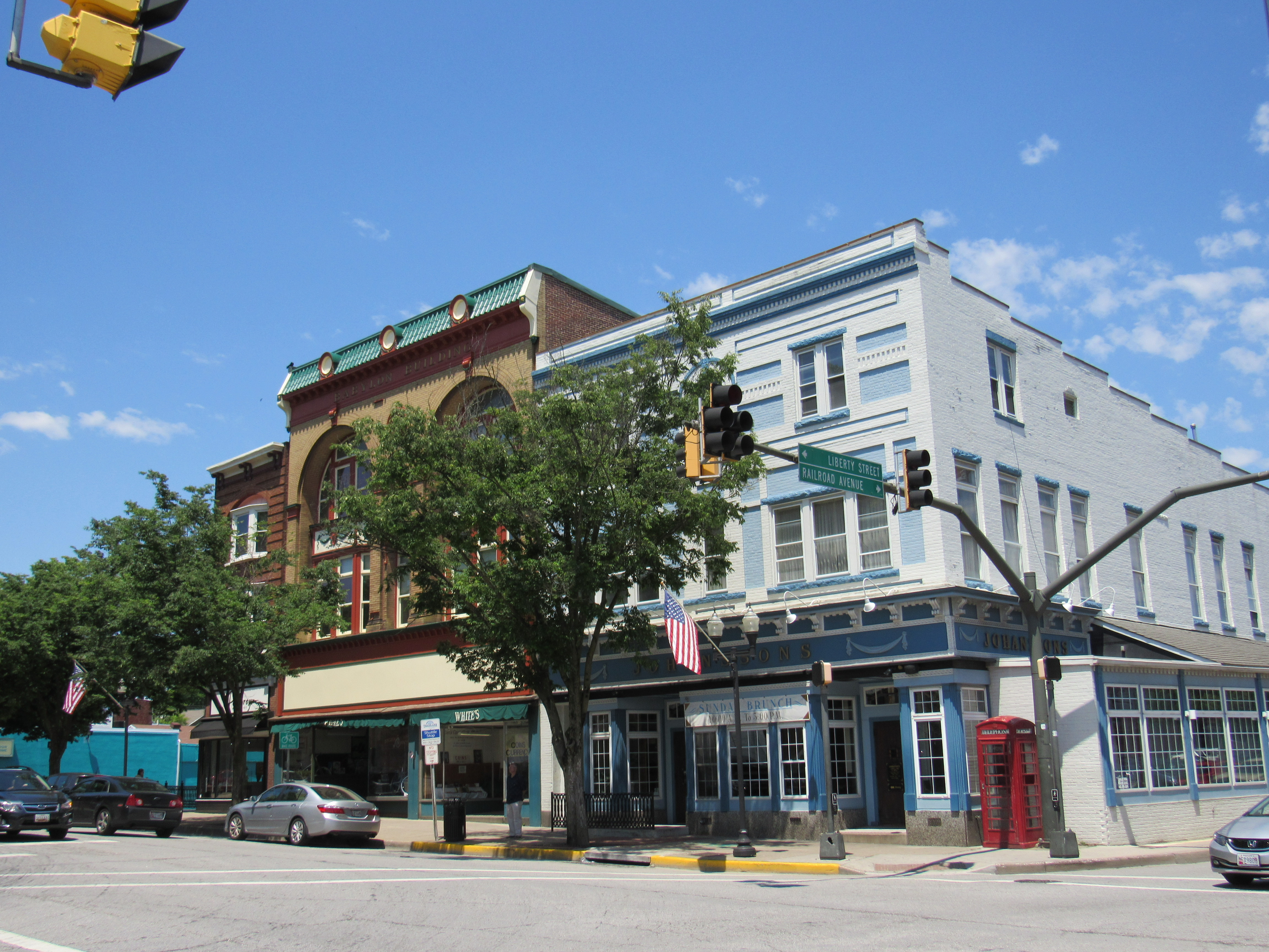 Buildings in Westminster, Maryland.